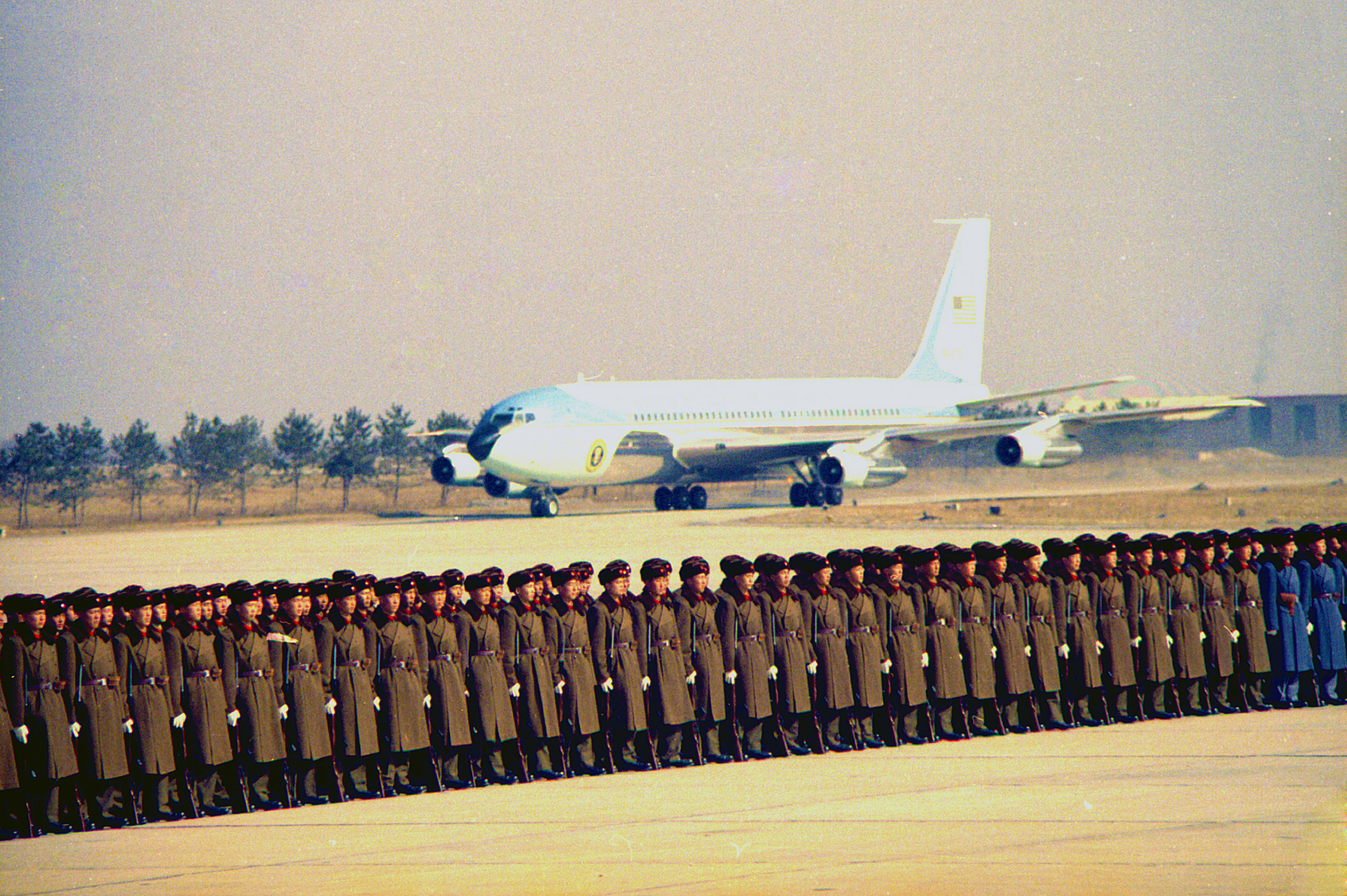 The U.S. "Air Force One" (SAM 26000) lands in China with President Richard Nixon and First Lady Pat Nixon aboard.